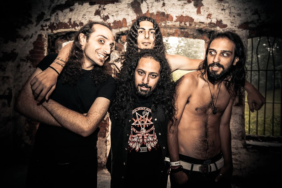 Blaakyum